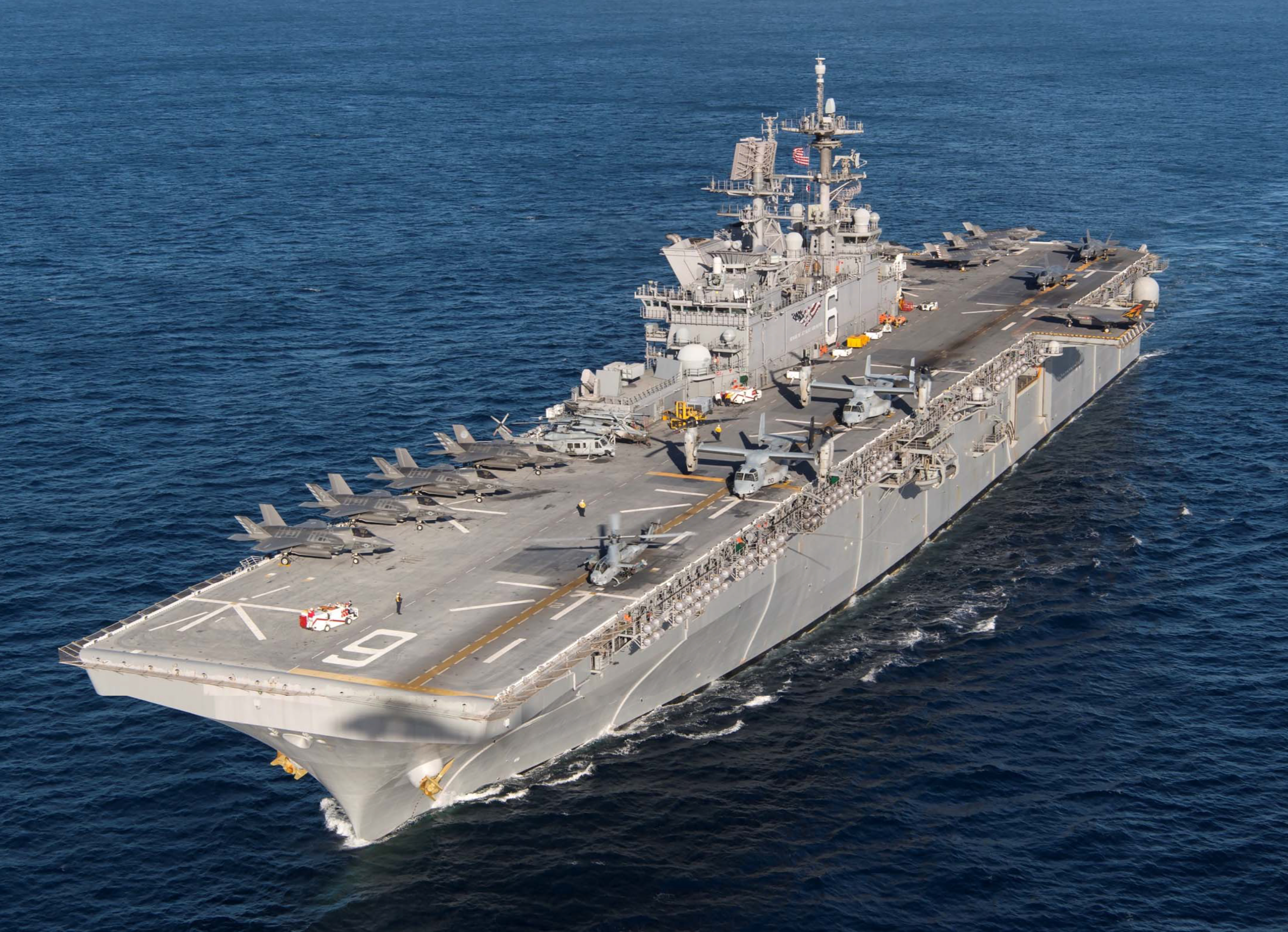 USS America (LHA-6) F-35B loaded